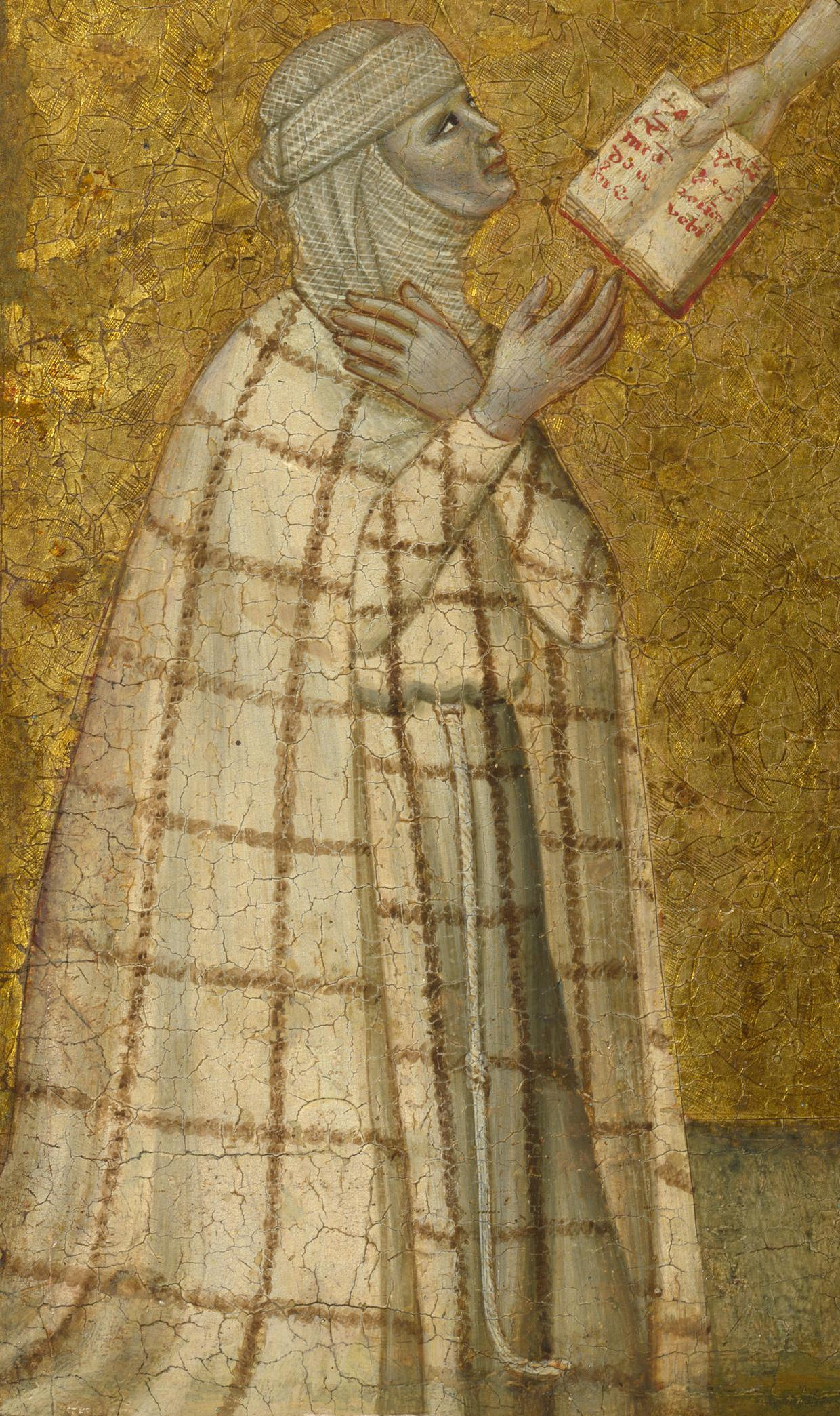 The Vision of the Blessed Clare of Rimini / Francesco da Rimini (Master of the Blessed Clare). ca. 1333-1340.